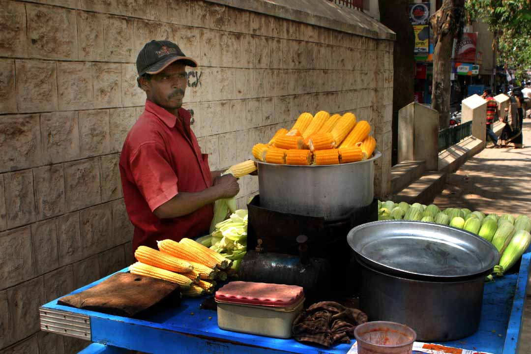 Roadside maize vendor in India. Source: Babasteve